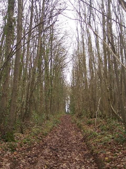 Collinpark Wood. Looking up the old routeway south through this old wood where the young Dick Whittington would have played before moving to London.